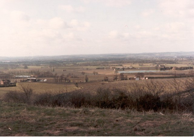 View from the Linton Park escarpment south across the Weald. This is the panorama seen from 893507